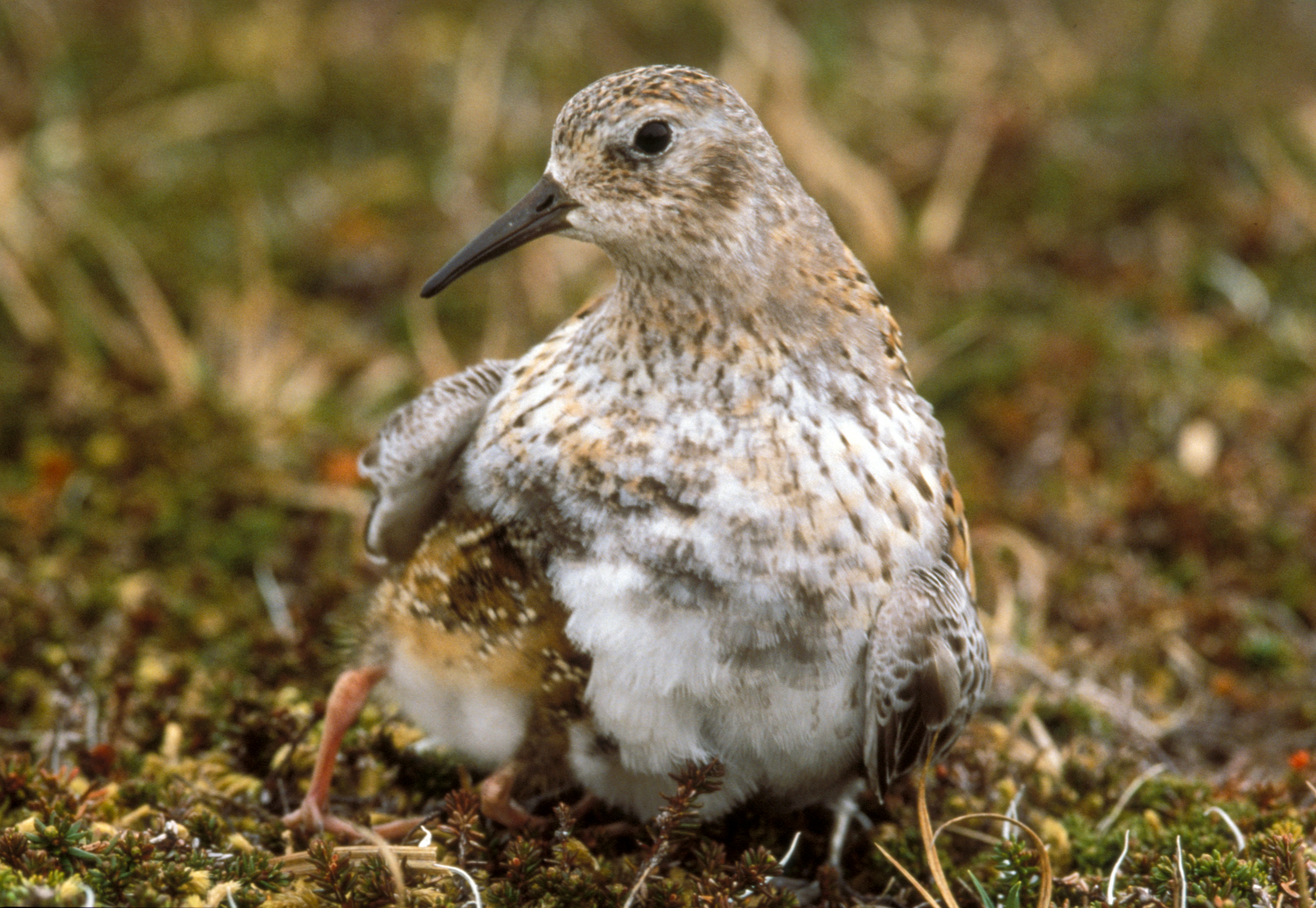 Least Sandpiper (Calidris minutilla) and chick, Alaska Maritime NWR